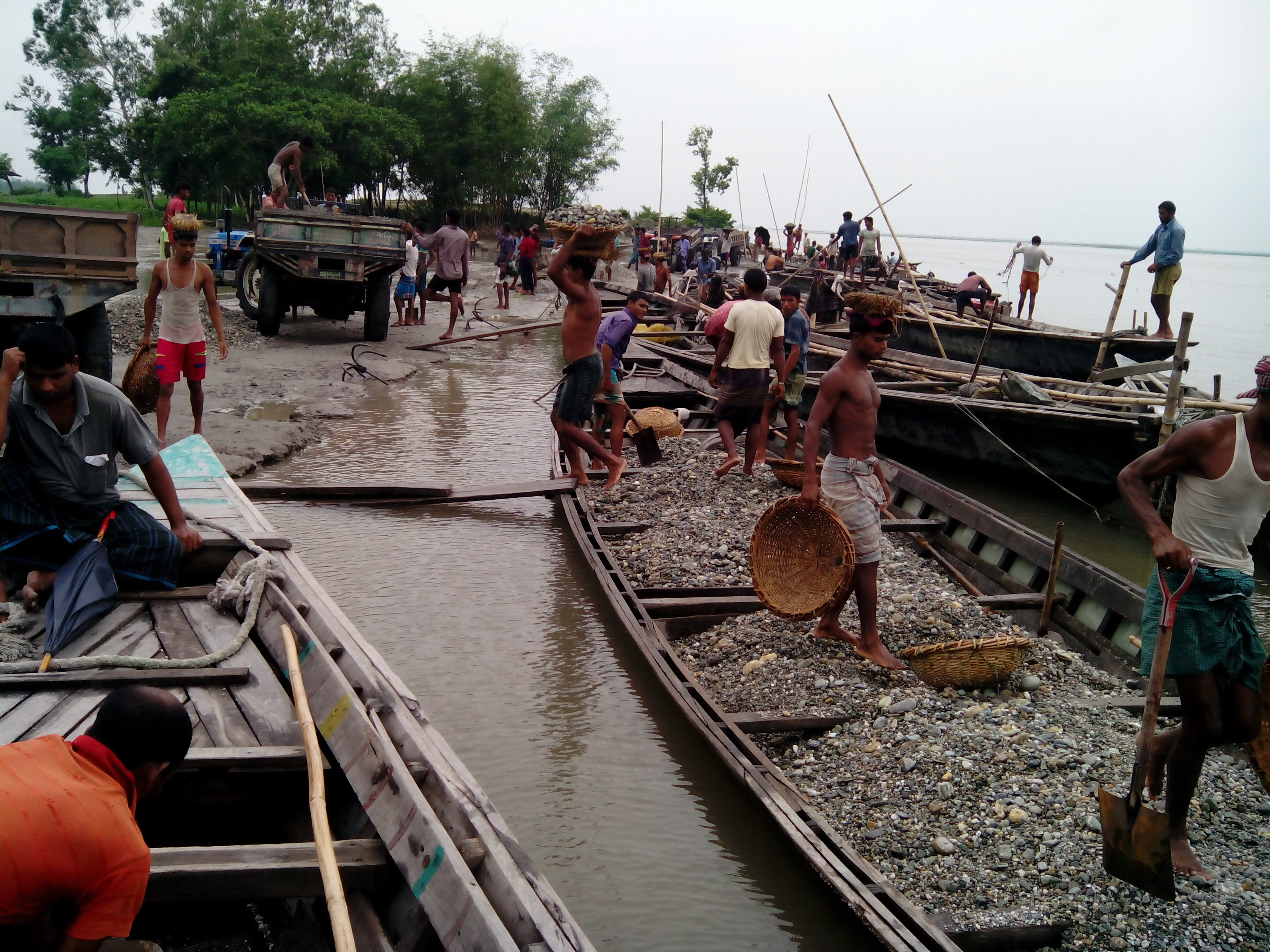 Collect_the_stones_in_Teesta_river_at_Dimla_Upazila